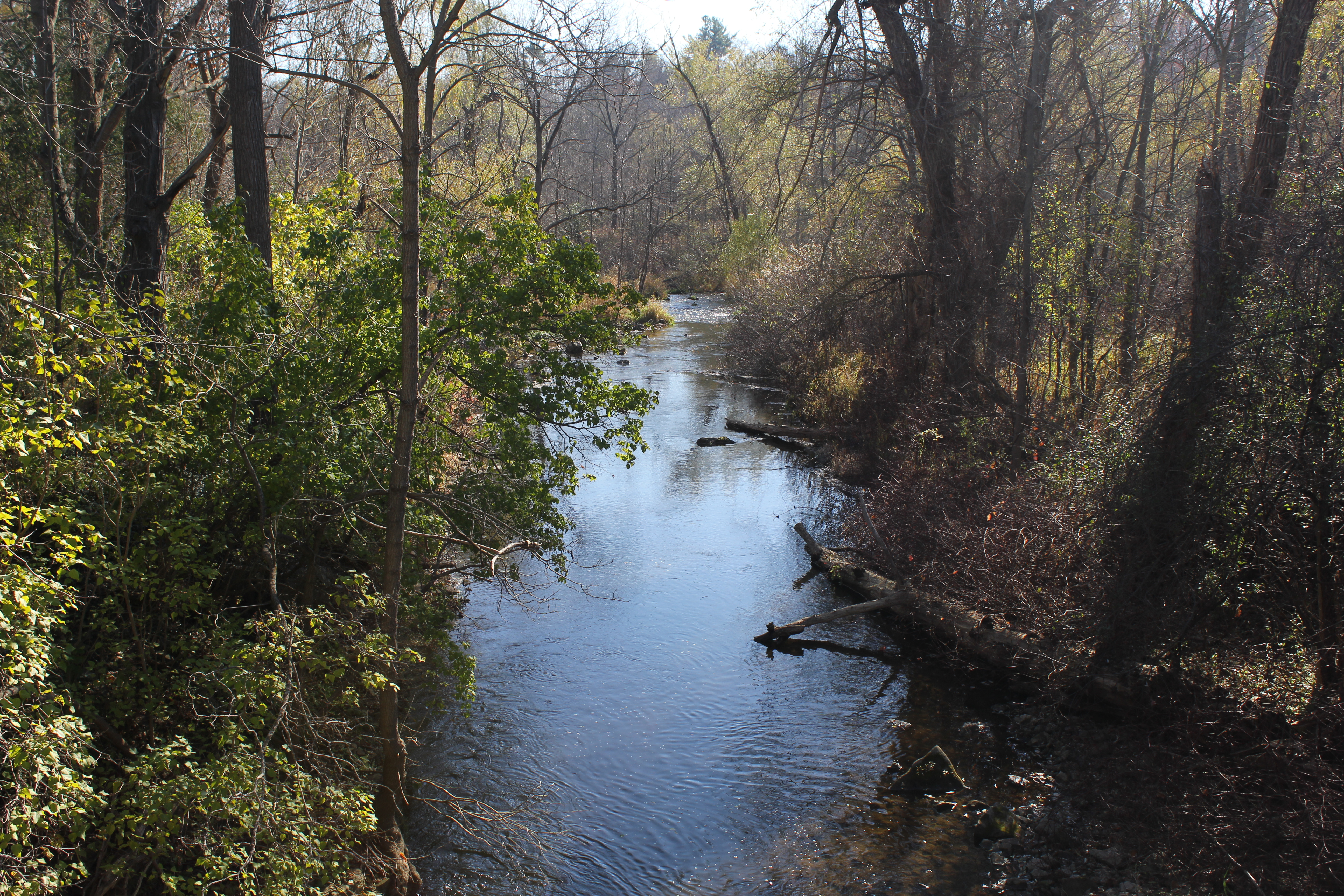 Spencer Gorge Cons. Area , Ontario, Canada - Spencer Creek